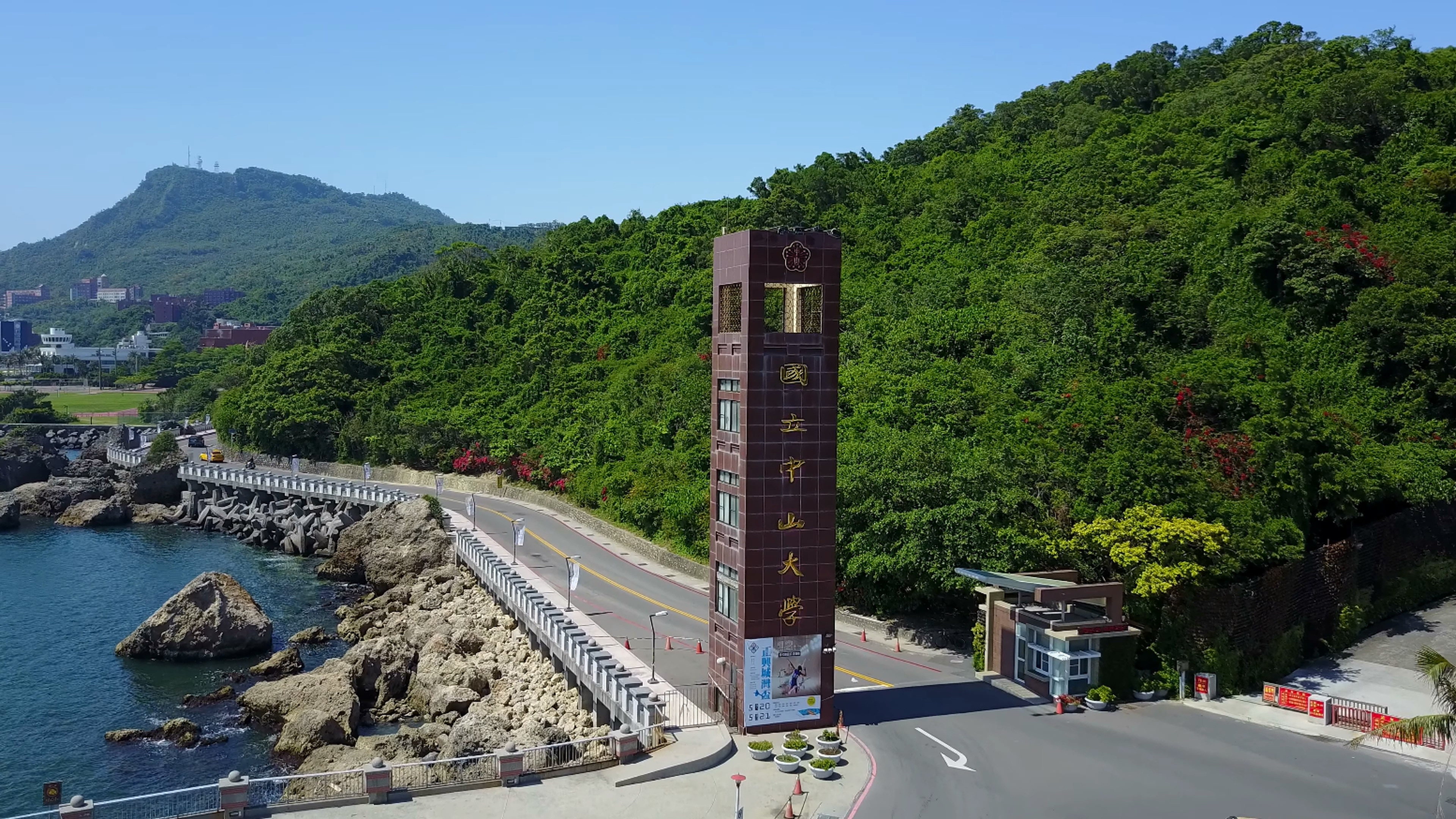 National Sun Yat-sen University main gate in 2017